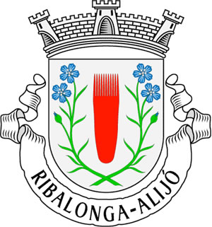 The blazonry of Ribalonga